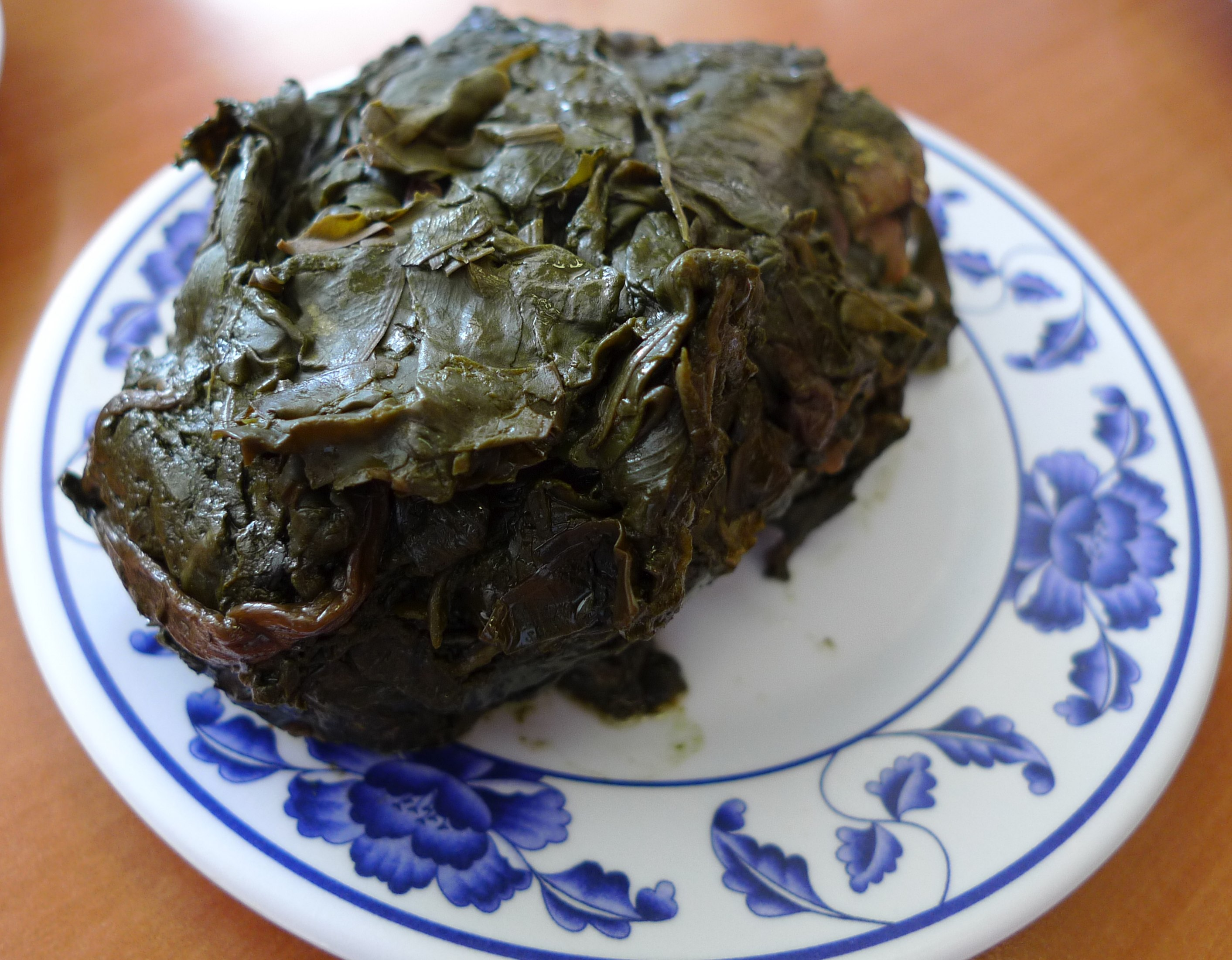 Lau lau, a traditional hawaiian dish.